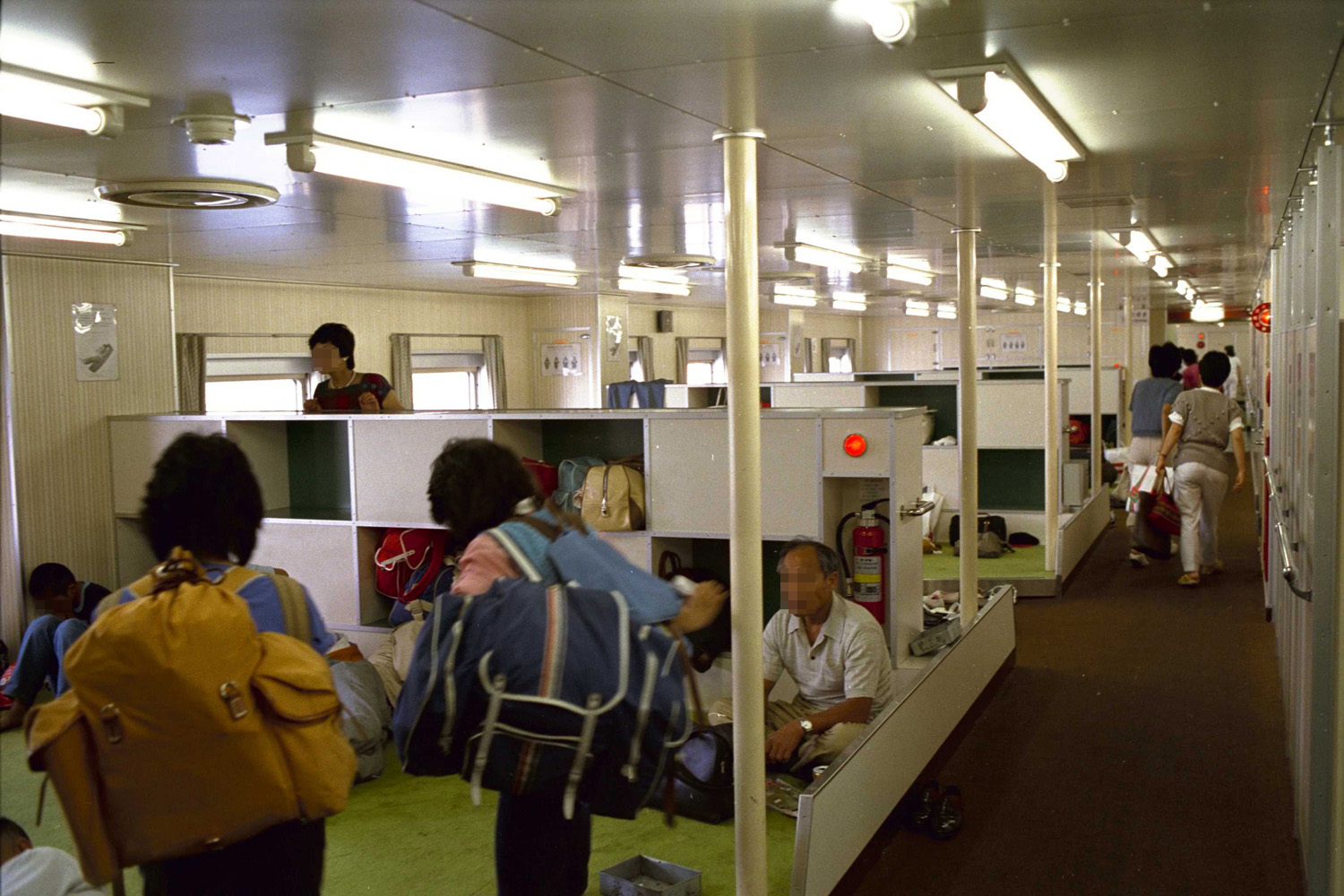 MS HIYAMA MARU2 Starboard side Ordinary carpet cabin.Right side wall is Engine muffler casing. .